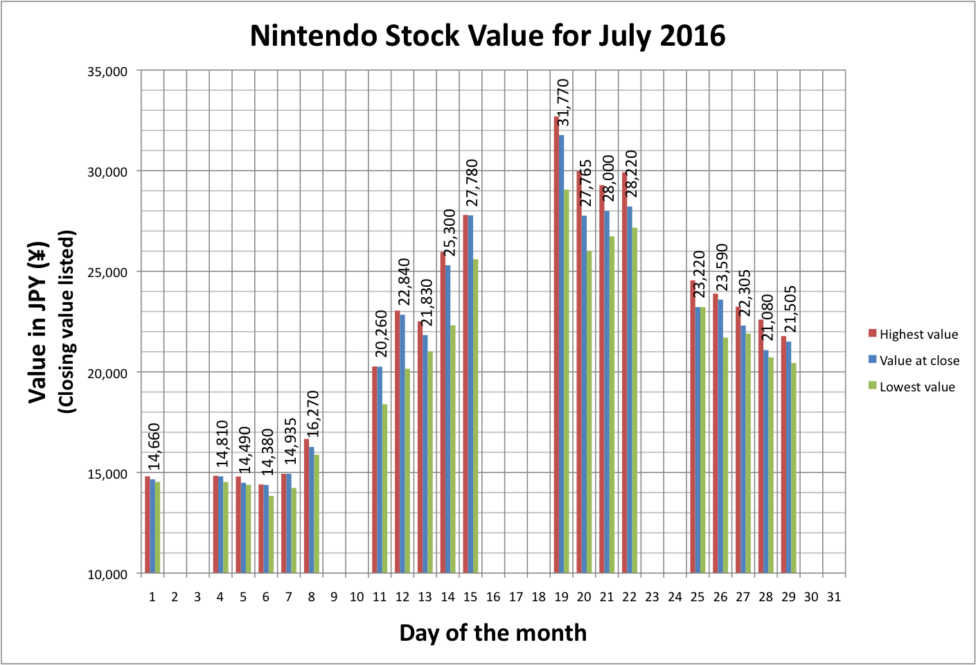 Value of Nintendo's stock in July 2016 covering the week prior to and the two weeks following Pokémon Go's release. The company's stock value surged as investors saw the game's tremendous appeal; however, once investors were informed that the game was not actually produced by Nintendo, stocks fell dramatically. Stock values were obtained through Reuters and plotted using Microsoft Excel This diagram was created with Microsoft Excel.